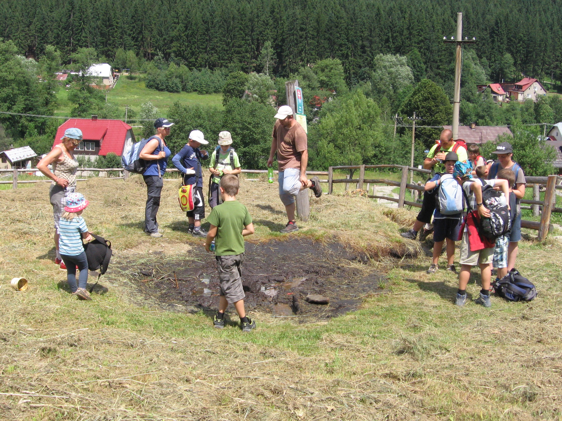 Natural oil seep in Korňa